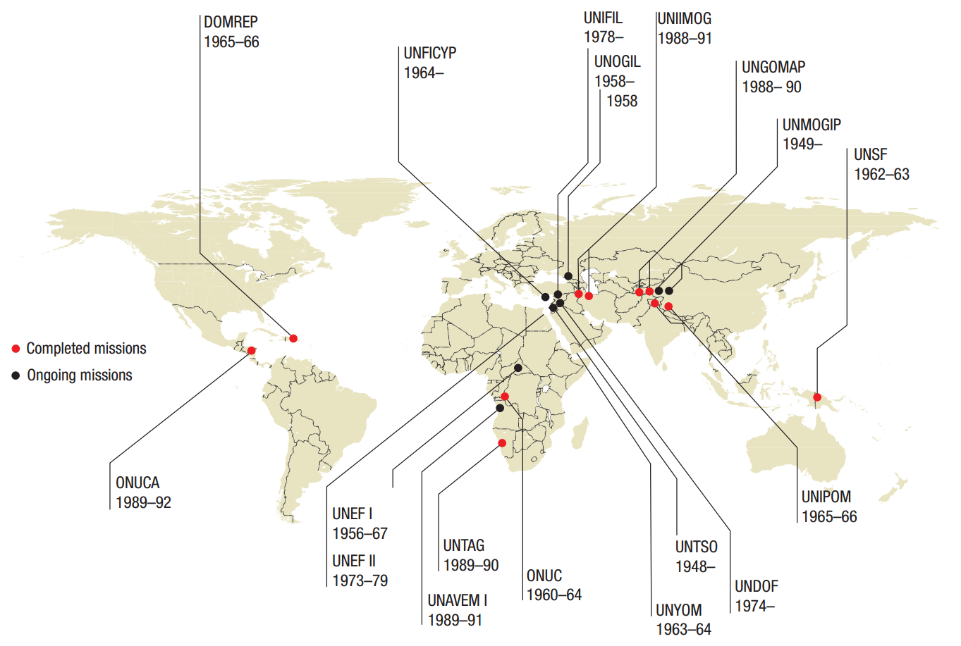 The so called “Peace Operations” conducted by the UN during the Cold War (1949–89.)